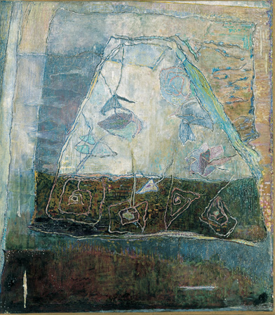 Painting by Ilka Gedő at the Hungarian National Gallery DOMED ROSE GARDEN oil on canvas, 54 x 47 cm